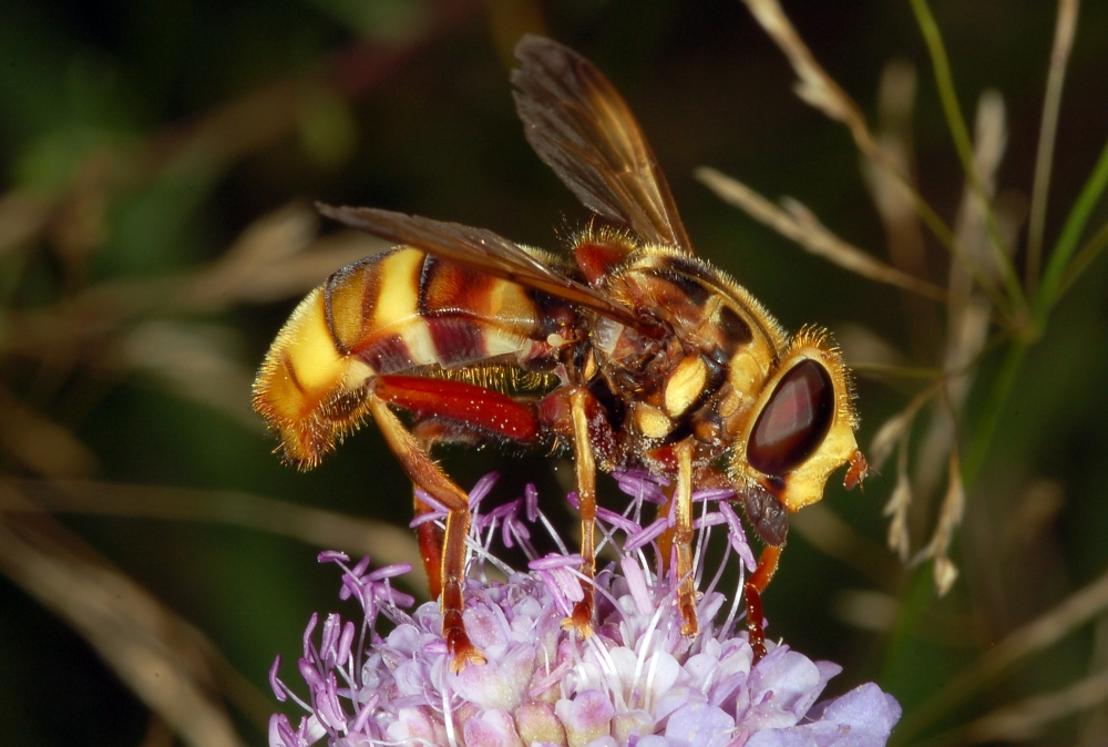 Milesia crabroniformis, Valle Maggia, Ticina, Switzerland